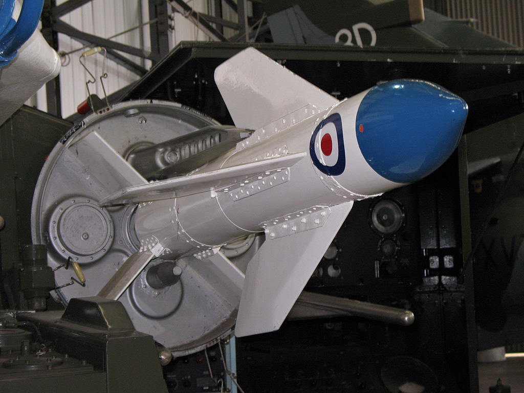 A Shorts Tigercat Surface-to-Air missile photographed at RAF Elvington on the 16 of August 2007 by Brian Burnell. Note that this is a dummy training round (circular fuselage) rather than a live airframe (square fuselage under the wings)